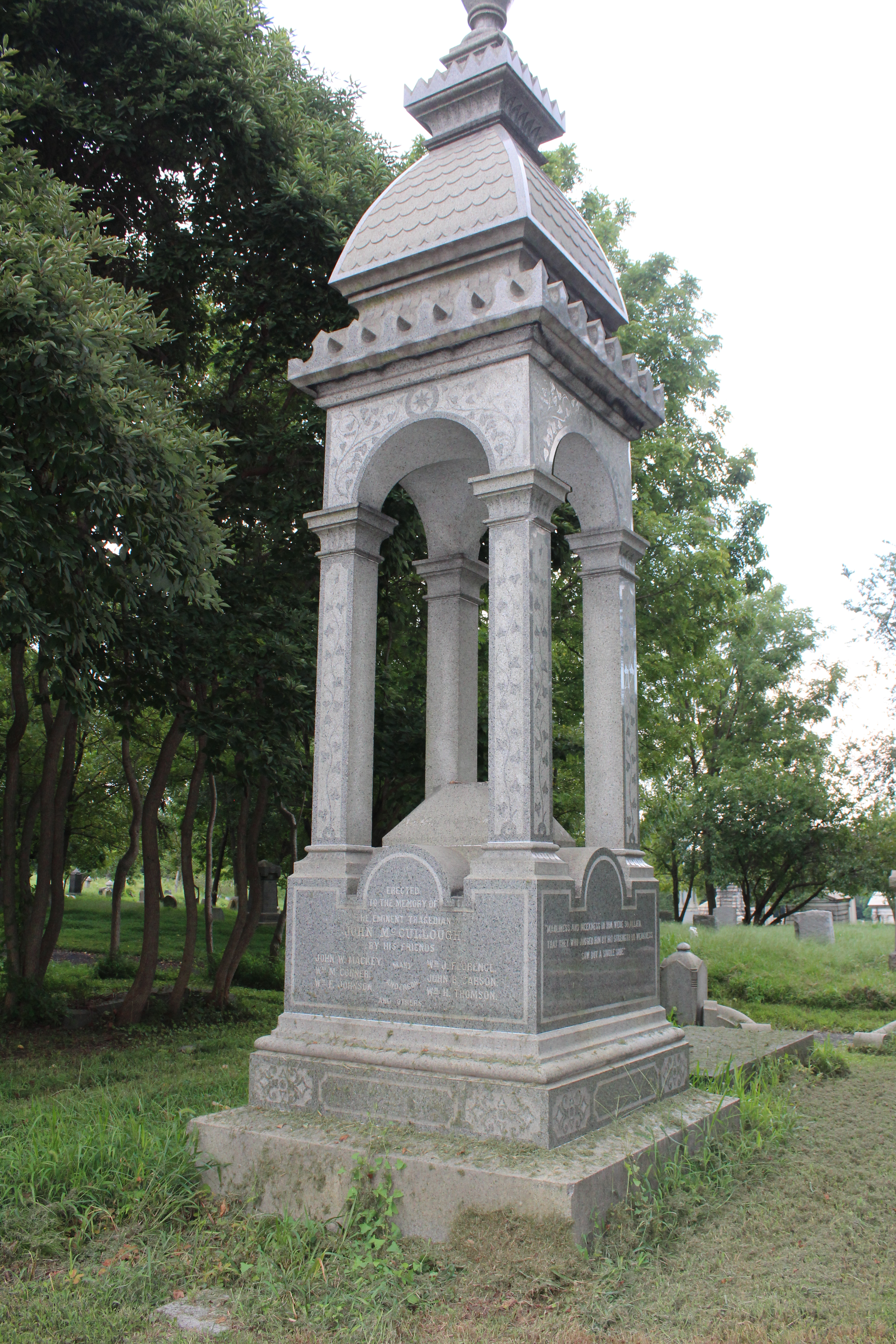 John McCullough Memorial in Mount Moriah Cemetery. Photo taken August 2019.